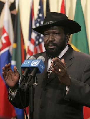 Salva Kiir Mayardit, President of the Government of Southern Sudan that speaks to news reporters outside the Security Council chamber at United Nations Headquarters in New York, United States of America.